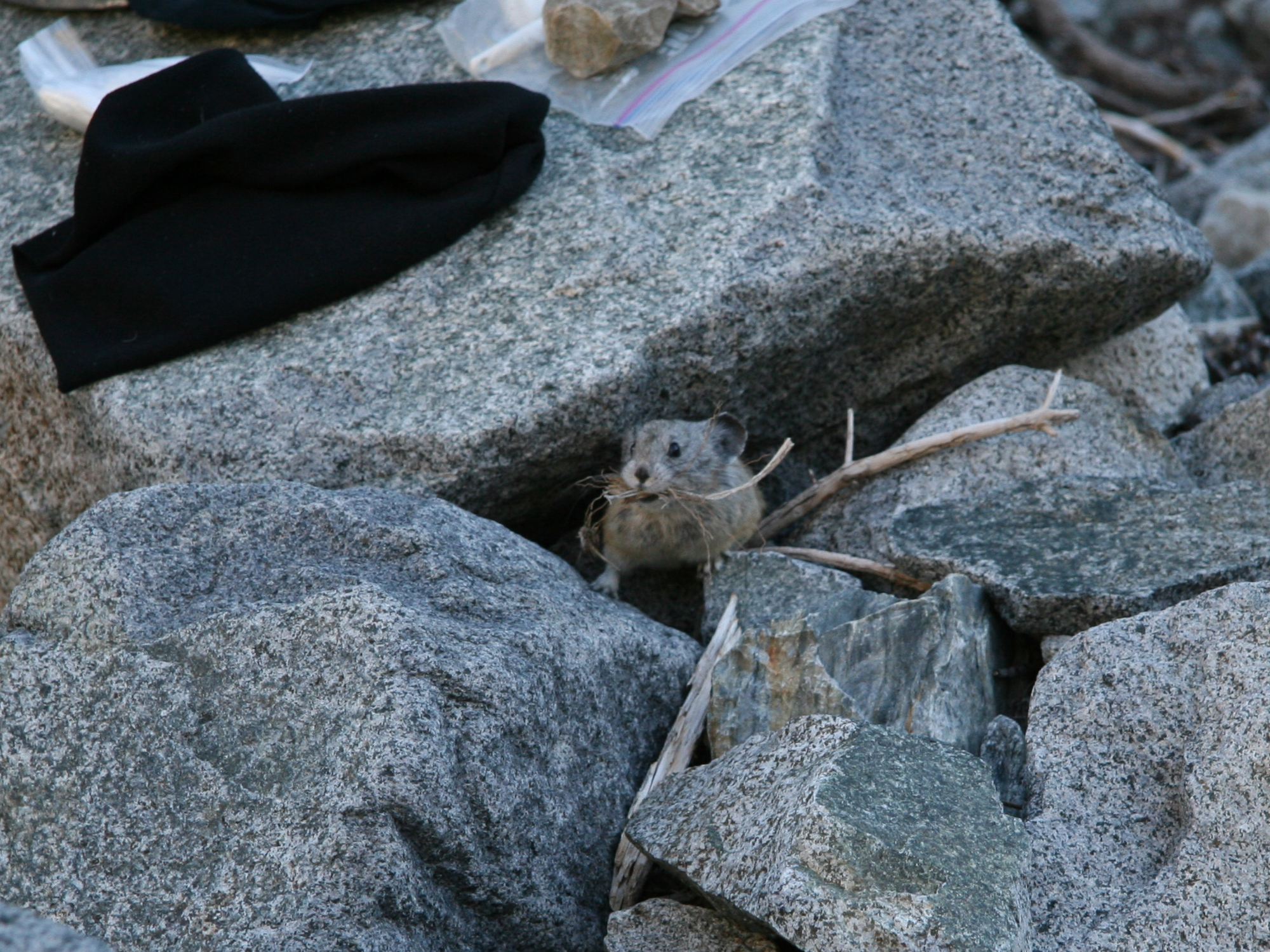 Ochotona princeps - American pika in rocks, with mouthful of dry grasses. Such "haying" activity collects grass for winter food. At streamside campsite below Black Rock Pass, Mineral King, CA.